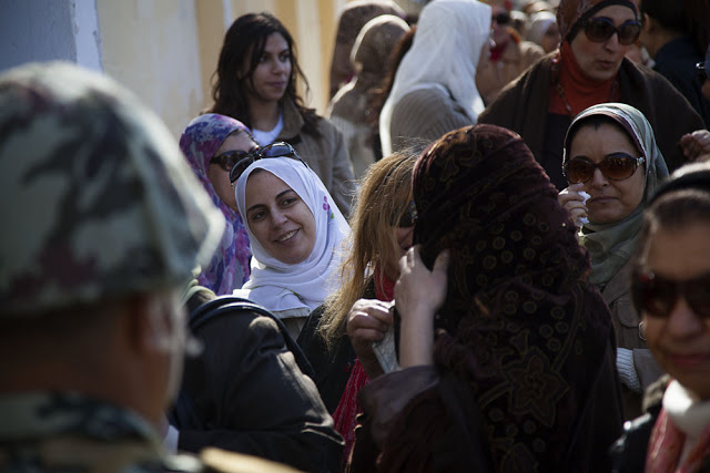 Original description: "Women wait to vote in Egypt's constitutional referendum outside of a polling station in Giza, Saturday, Dec. 22, 2012. (Yuli Weeks for VOA)."